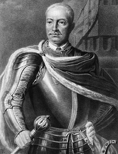 Feliks Kazimierz Potocki